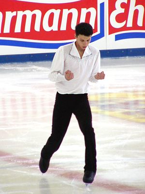 Nazar Mahmud during his free skate at the 2004 Junior Grand Prix event in Germany